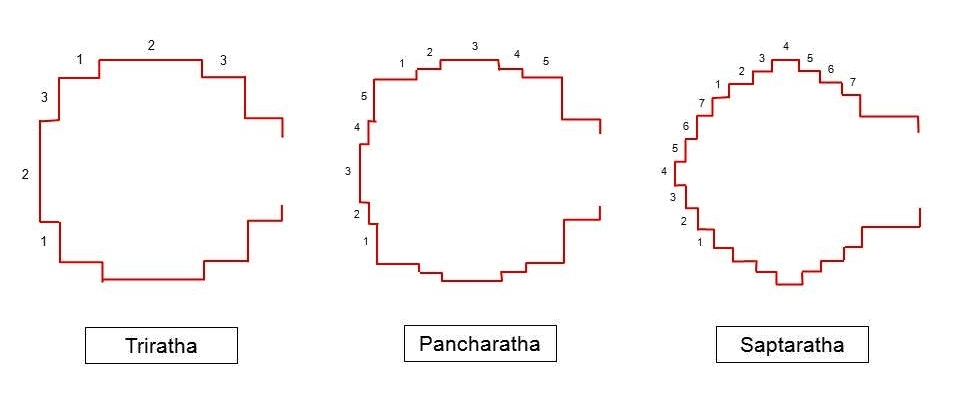 Schema of hindu temples according the number of facets : 3 (triratha), 5 (pancharatha), 7 (saptaratha). There are also navaratha temples (9 facets).